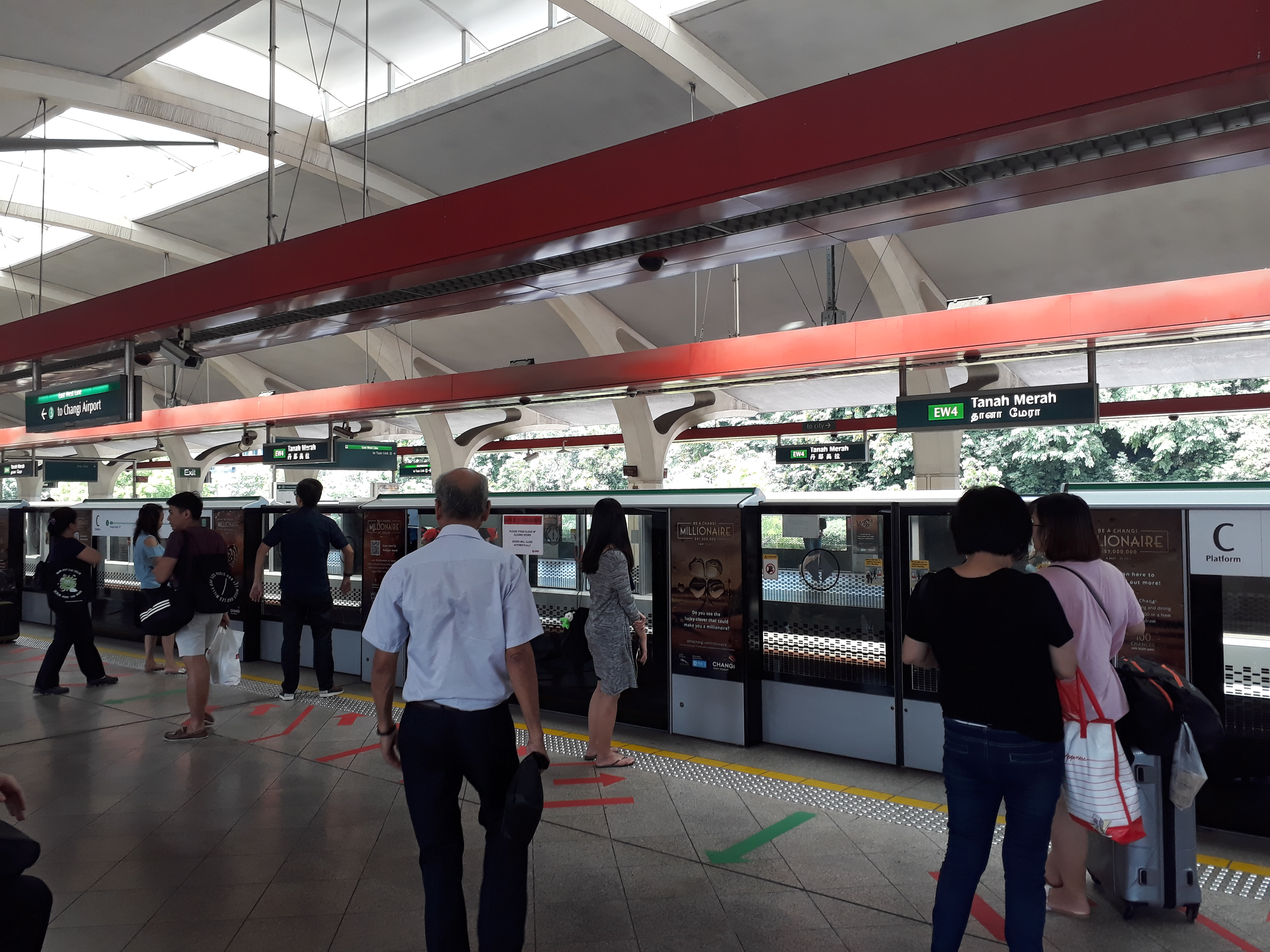 Platform C of Tanah Merah station